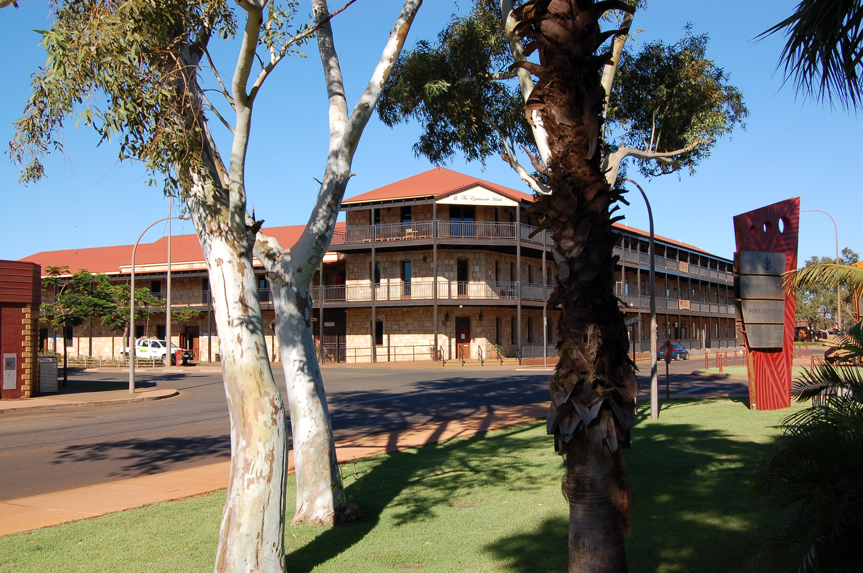 The Esplanade Hotel, Port Hedland, Western Australia, viewed from the other side of The Esplanade. The entrance to the Port Hedland Port Authority headquarters is at right.